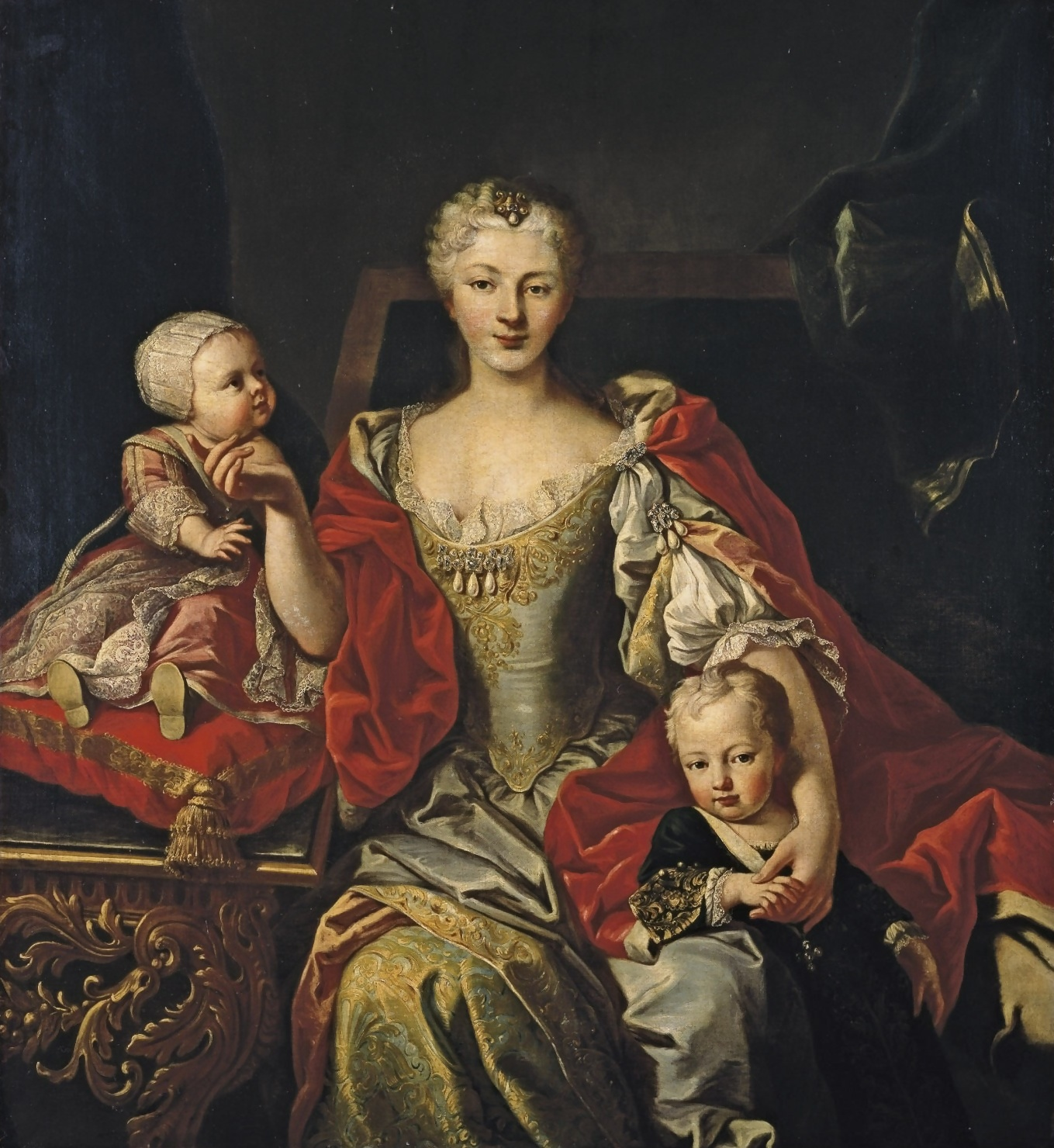 Portrait of Polyxena Christina of Hesse-Rotenburg with her two oldest children, the future Victor Amadeus III and Eleonora